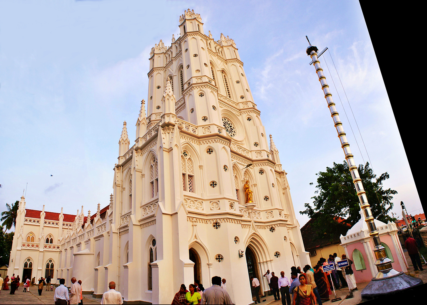 St. Joseph's Metropolitan Cathedral, Trivandrum by Carol Nettar